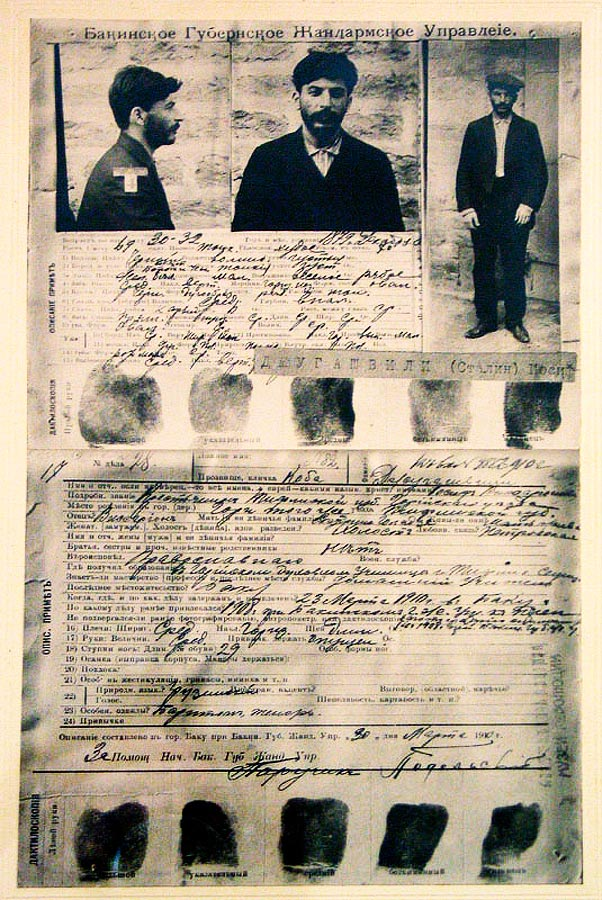 Stalin report in Baku Gendarmerie